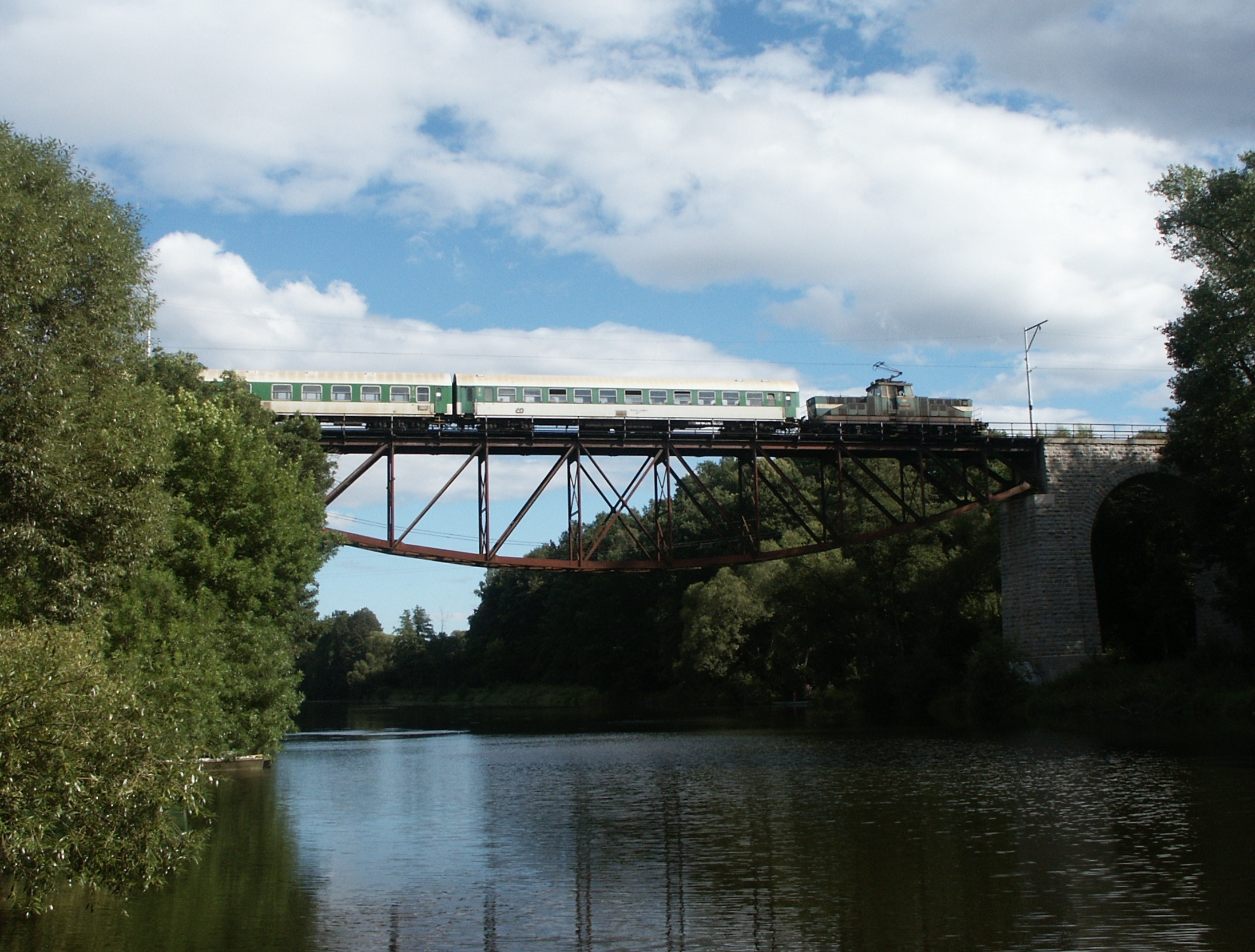 Train Nr. 28414 on the railway bridge over Lužnice between Tábor and Horky